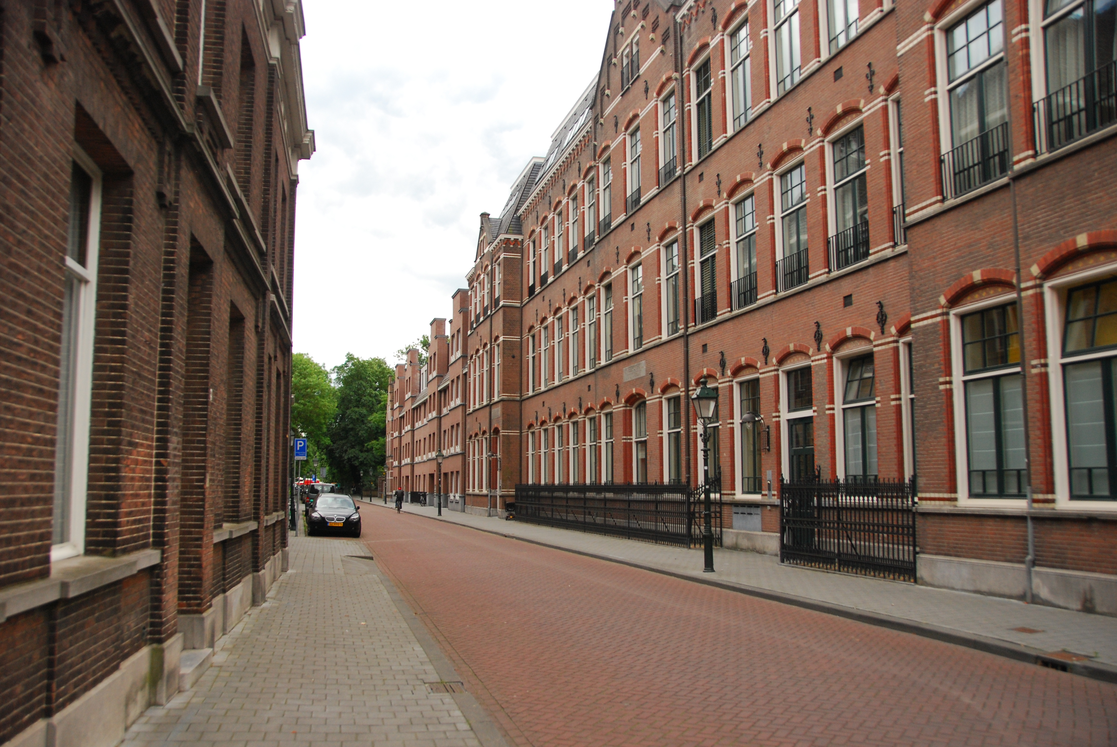 View of the street Papenhulst in southern direction as seen from the crossing with Clarastreet and Choorstreet. On the right side are buildings on the westside of the street. The monuments St. Janscentrum and Johannes de Deo are out of sight on the left side.